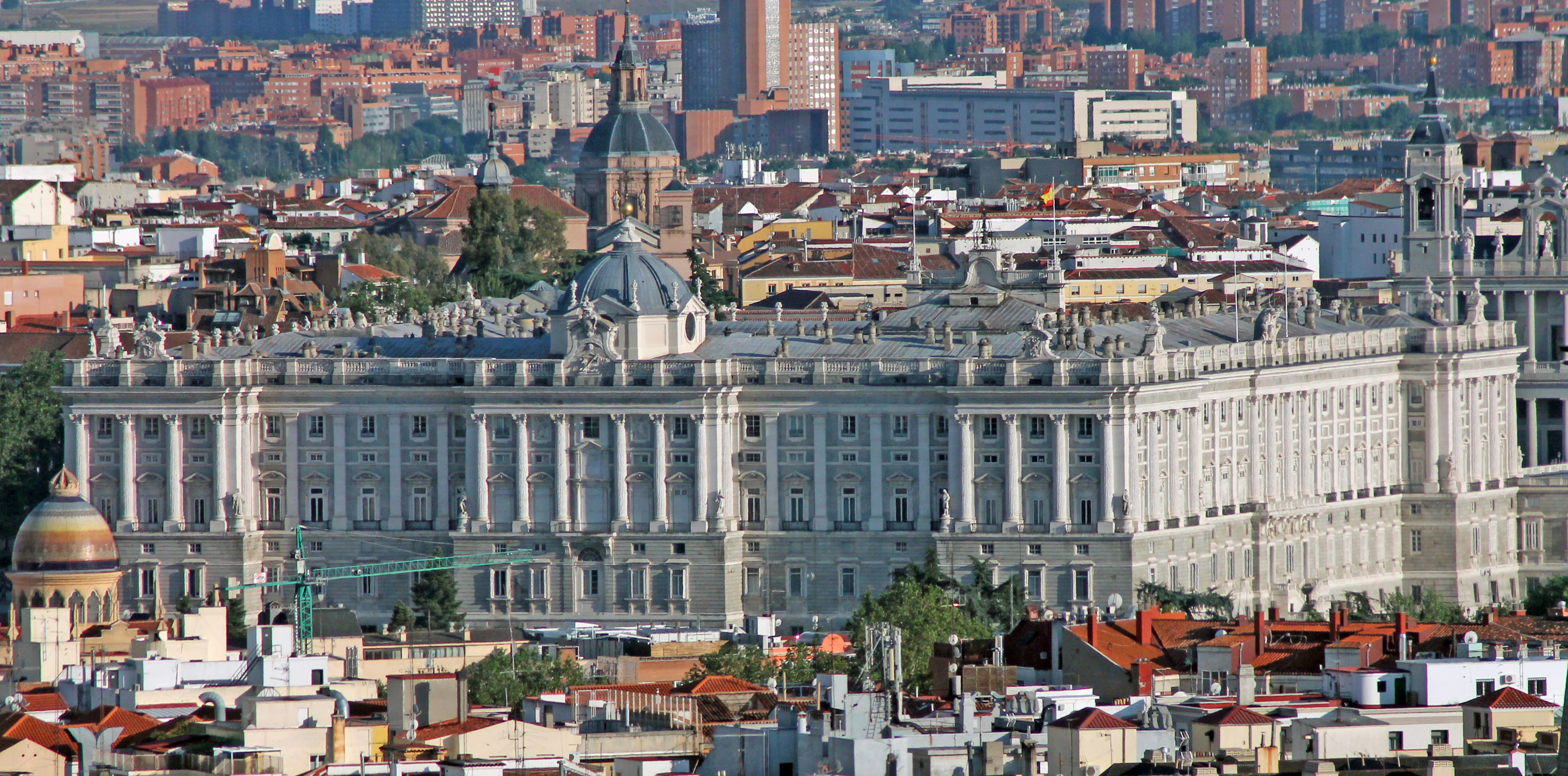 View of the Royal Palace of Madrid (Spain) from Faro de Moncloa.